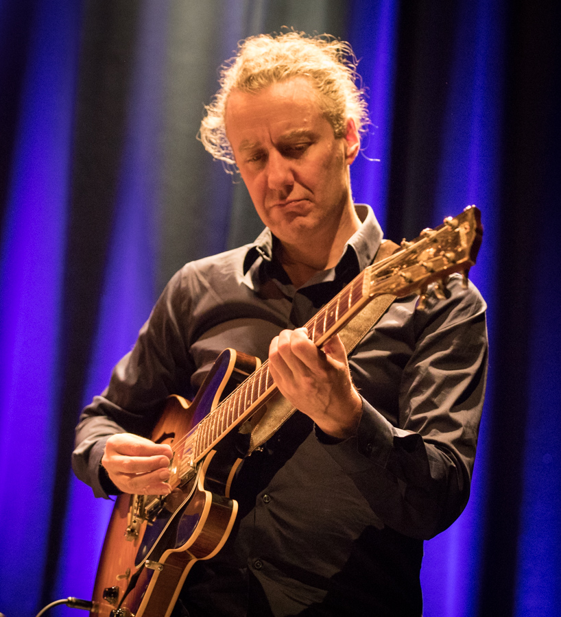 John Patitucci Electric Guitar Quartet at the stage of Cosmopolite. The concert took place on 12. May 2017 in Oslo.Lineup: John Patitucci (bass guitar), Adam Rogers (guitar), Steve Cardenas (guitar), Nate Smith (drums)